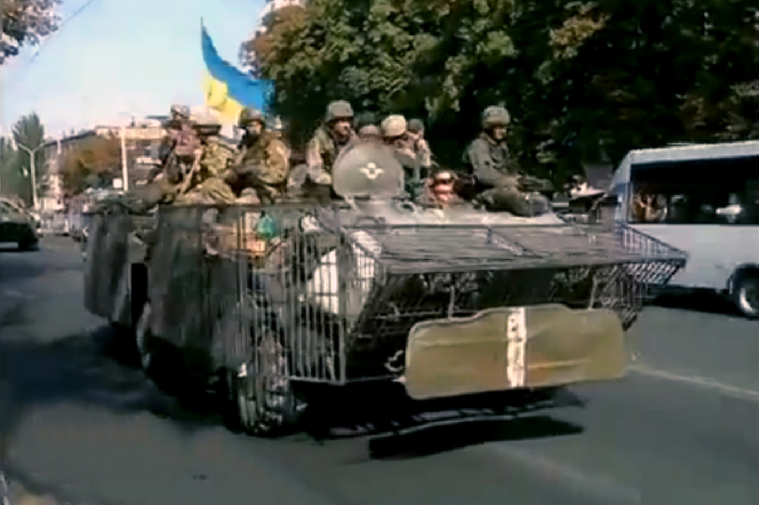 Ukrainian army armoured personal carrier in Mariupol.